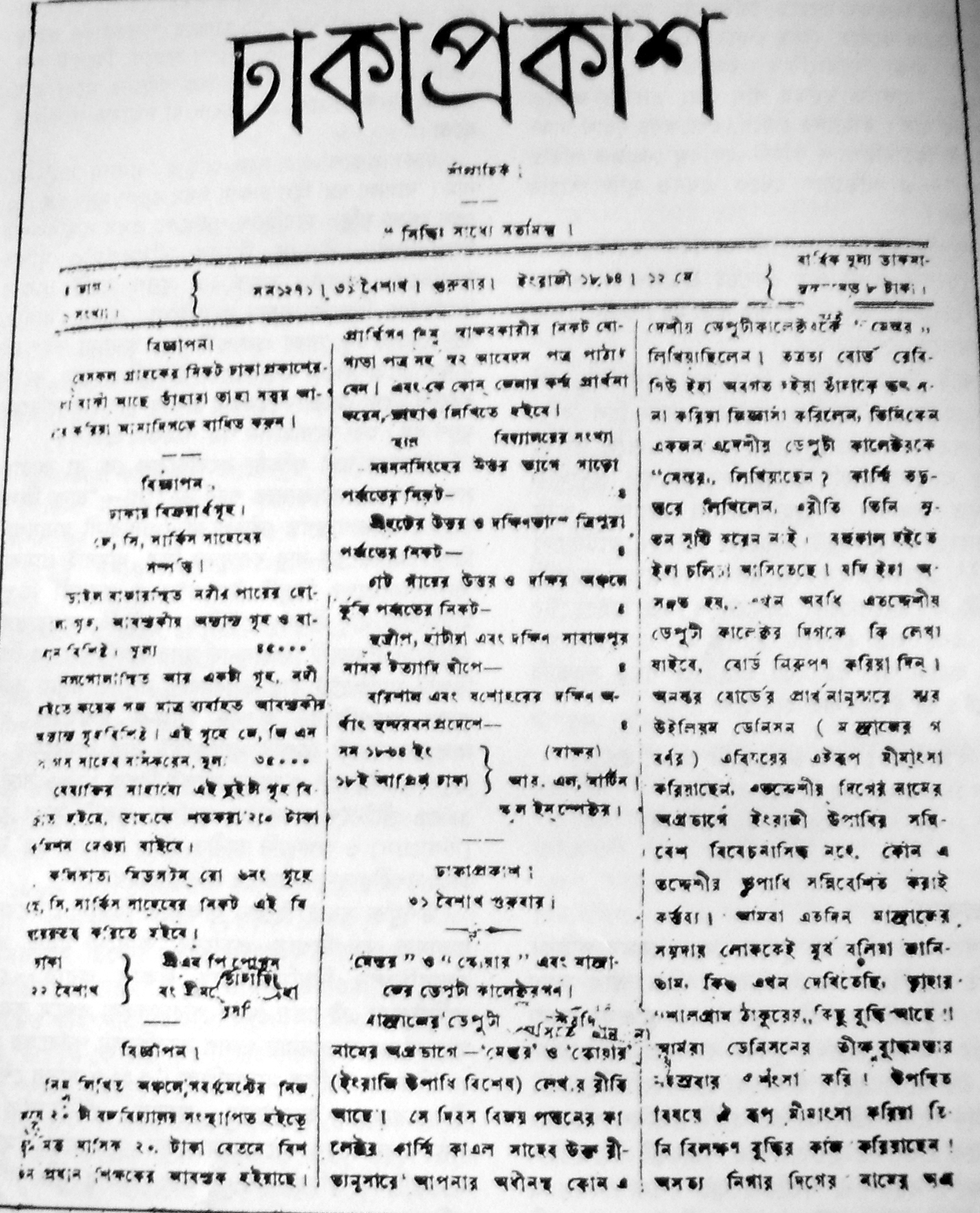 First page of magazine Dhaka Prokash, issue dated circa 1863-64